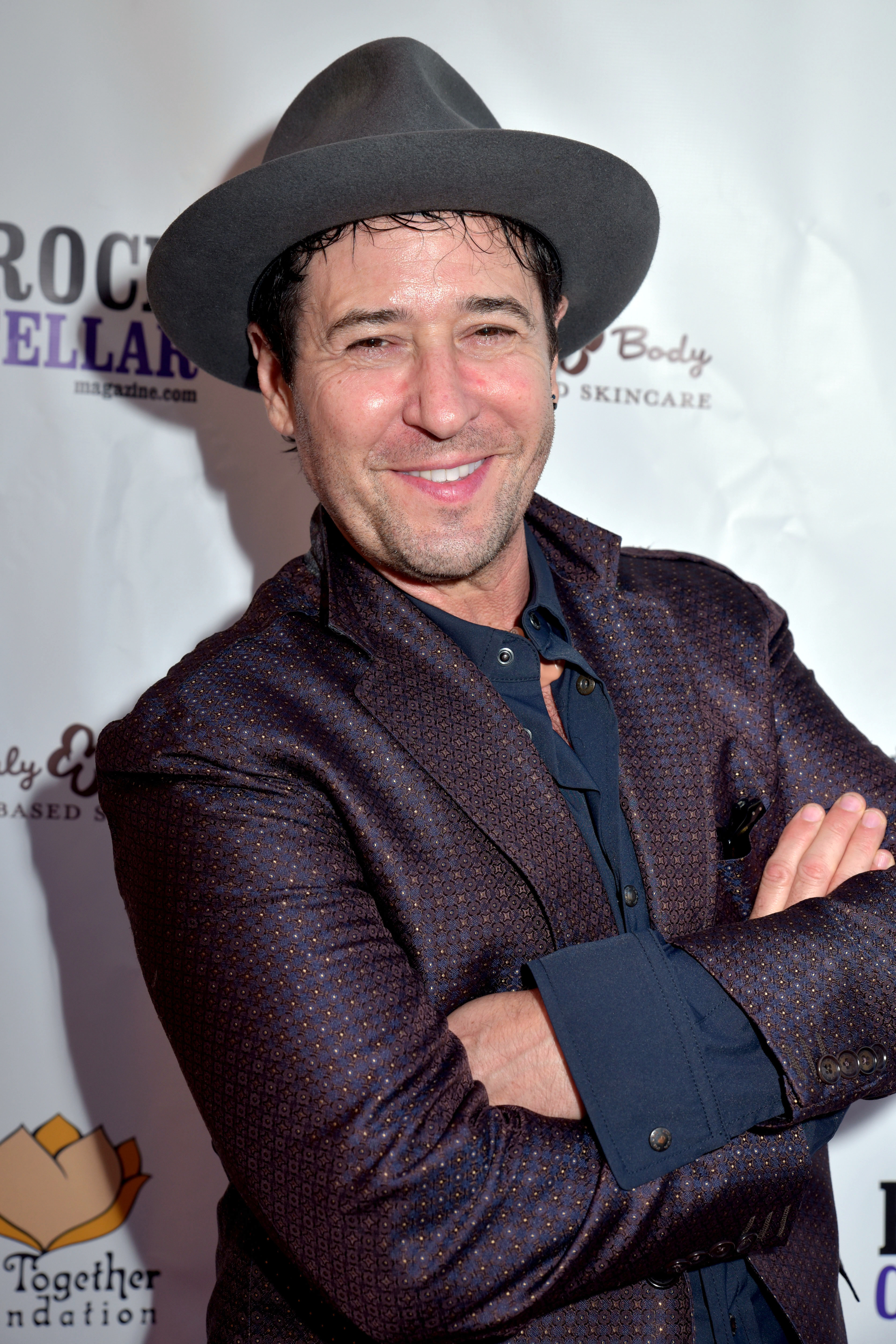 Rob Morrow arrives for the California Saga 2 Charity Concert in Los Angeles California on July 3, 2019 - Photo by Glenn Francis of